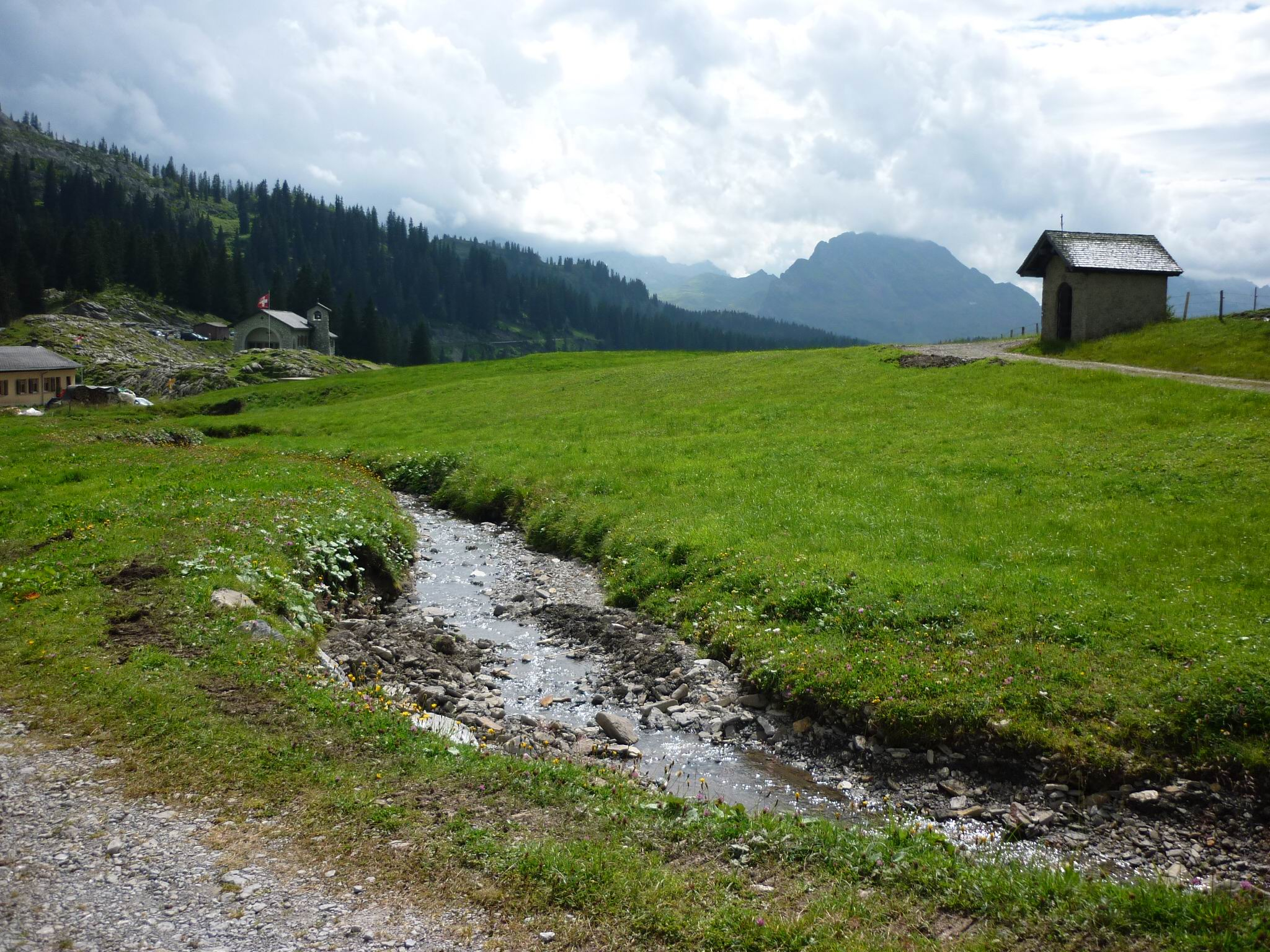 Pragelpass SZ, Switzerland